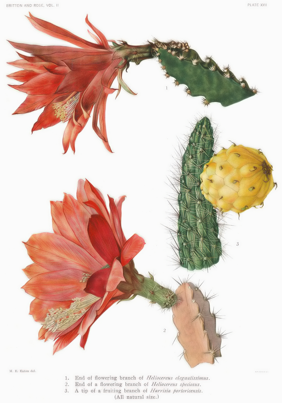 Disocactus speciosus Disocactus schrankii Harrisia portoricensis